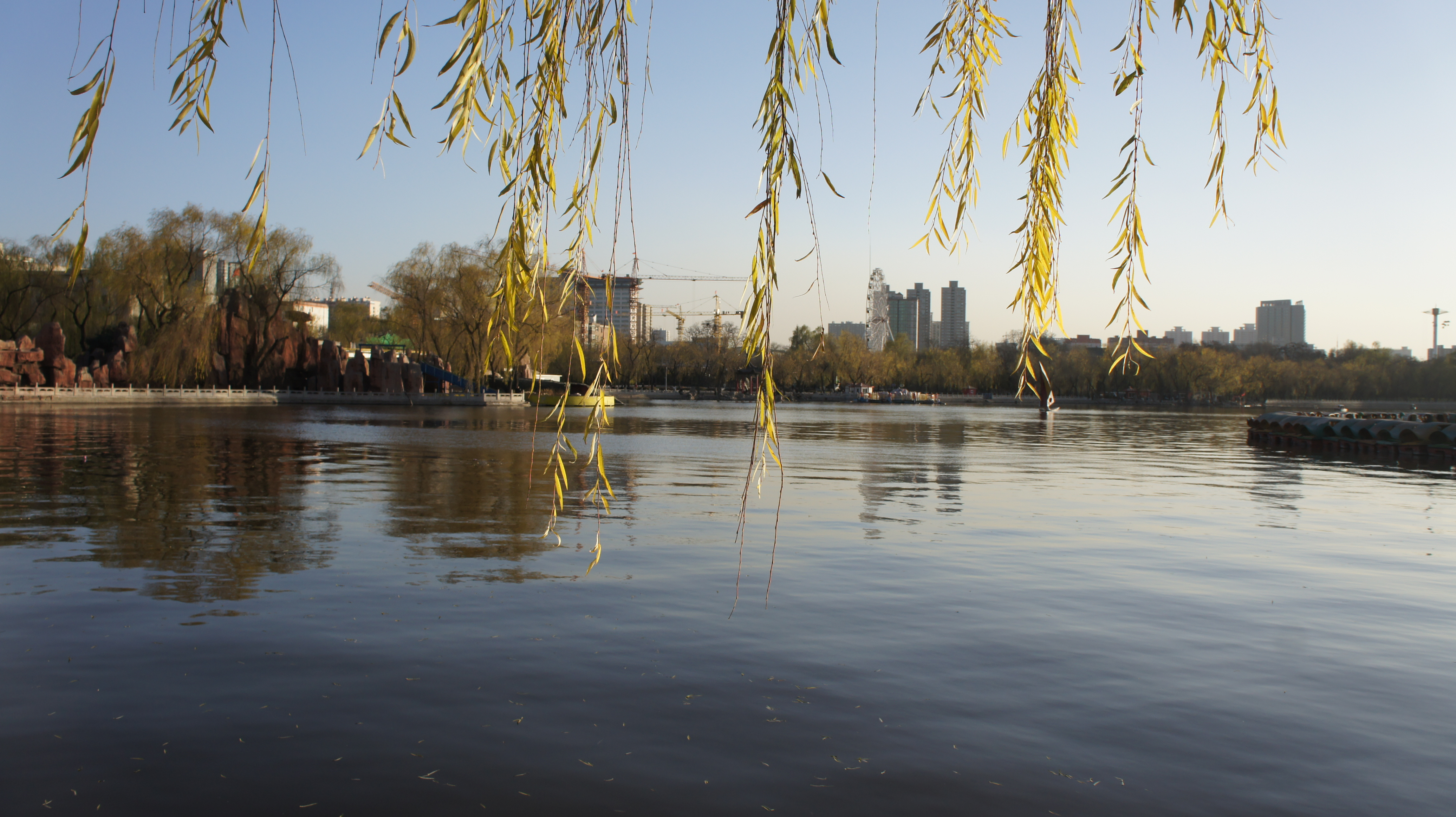 Yingze Park